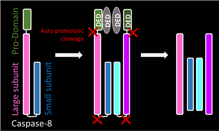 caspase 8 activation